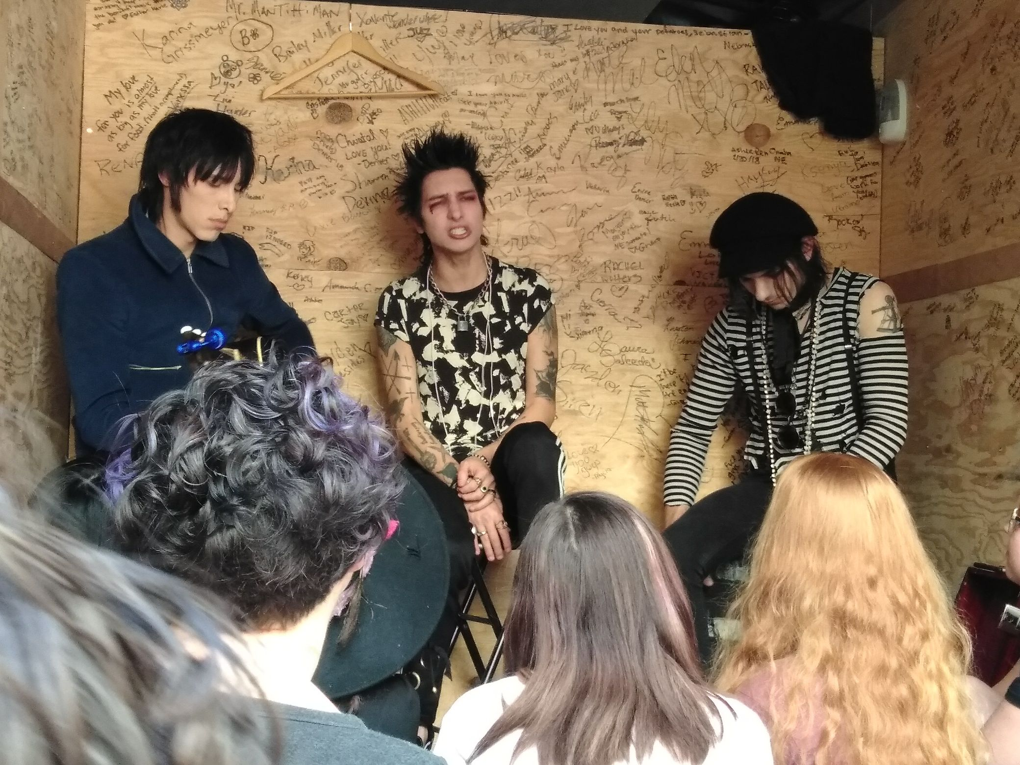 photo taken at a VIP acoustic show in Palaye Royale's Trailer on May 1,2018. pictured: Sebastian Danzig (left), Remington Leith (middle), and Emerson Barrett (right)